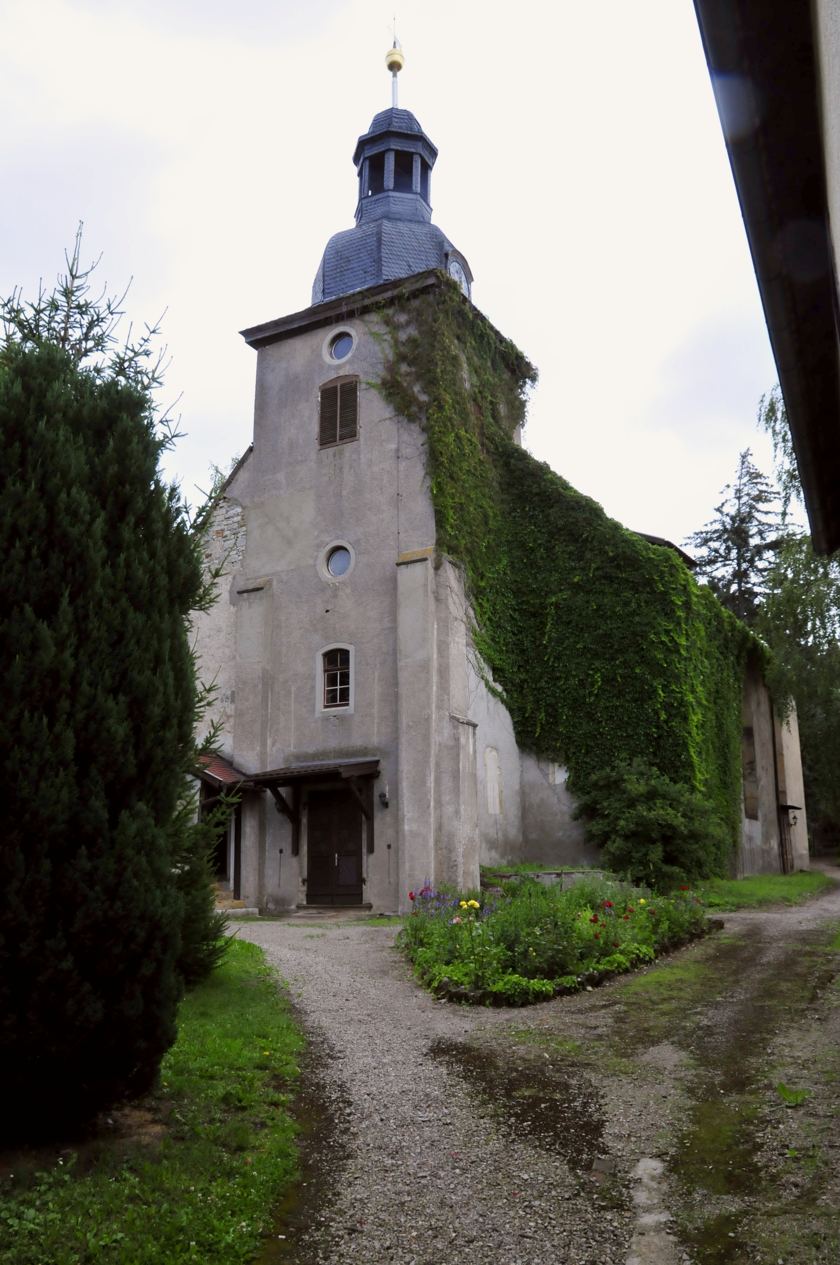 Remstädt, church